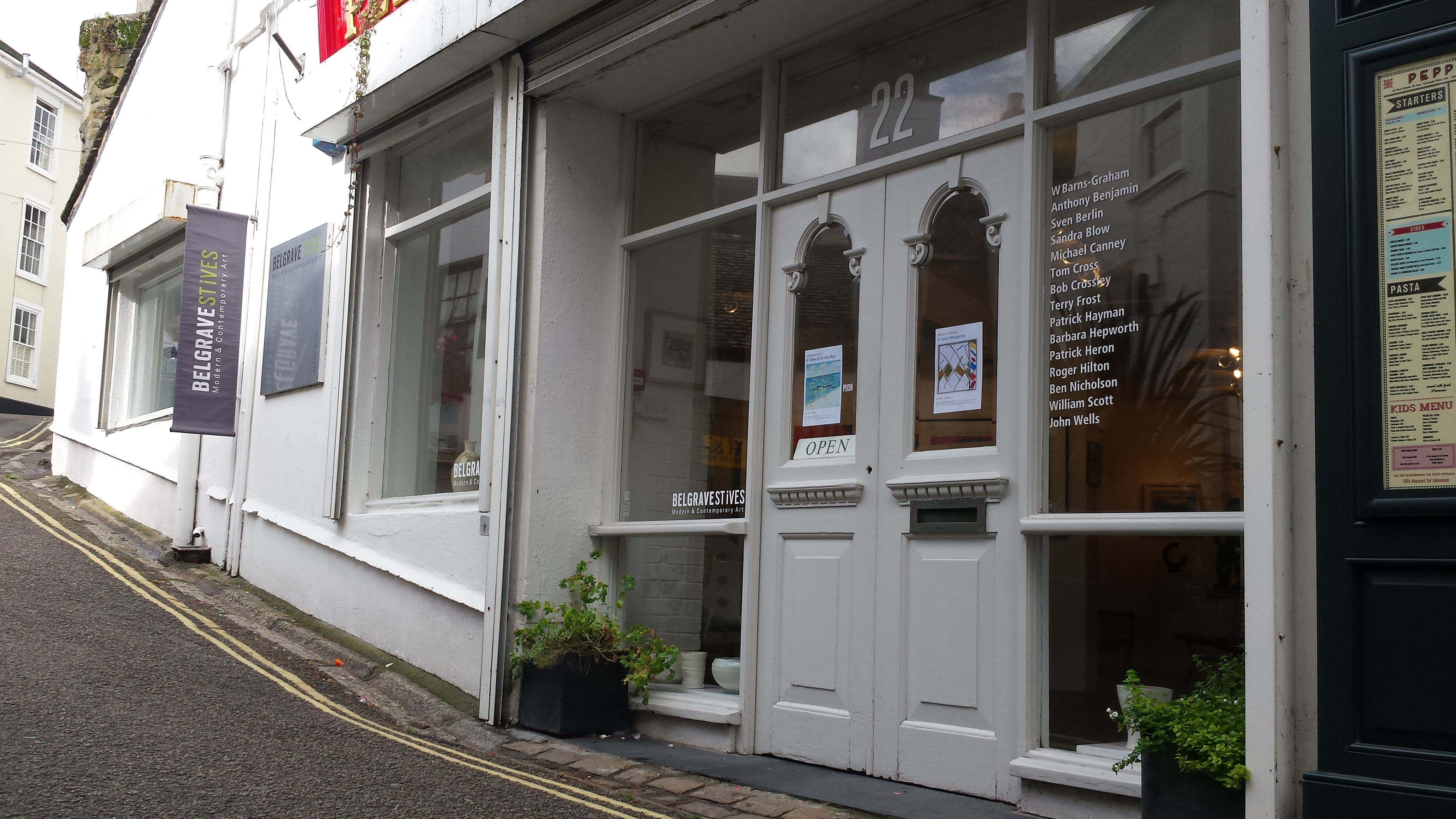 Photo of the front of the Belgrave St Ives Art Gallery